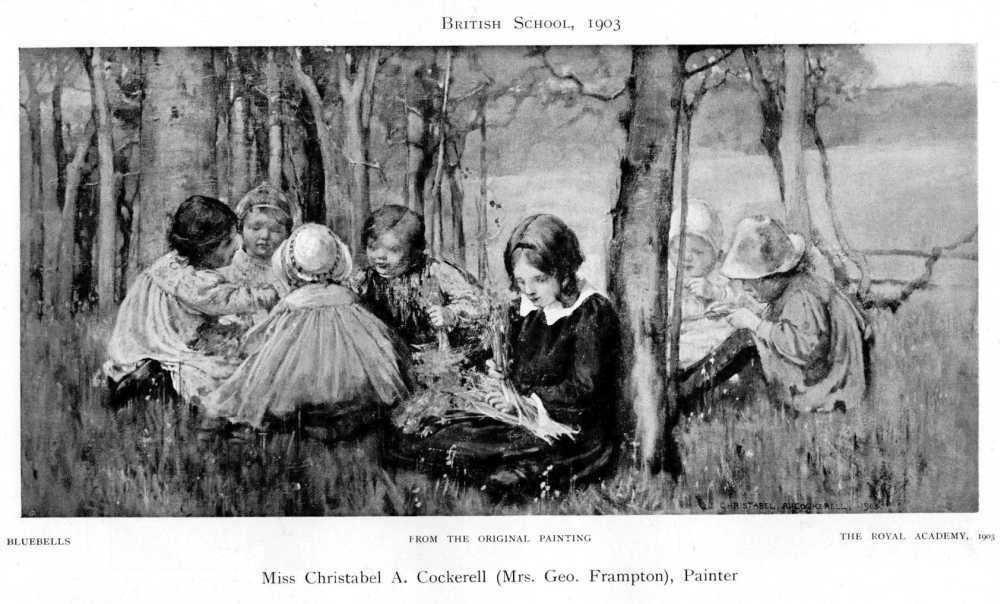 1905 print after page of Women painters of the world, from the time of Caterina Vigri, 1413-1463, to Rosa Bonheur and the present day, by Walter Shaw Sparrow, The Art and Life Library, Hodder & Stoughton, 27 Paternoster Row, London